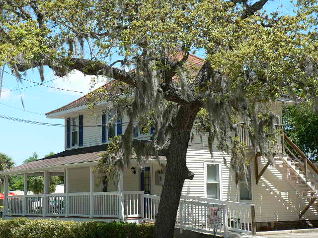 The "white house" in Melbourne, Florida, USA